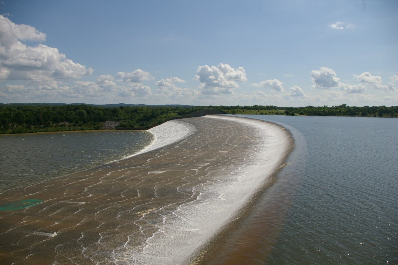 Picture of the spillway at Lake Texoma's Denison Dam spillway, July 14, 2007.